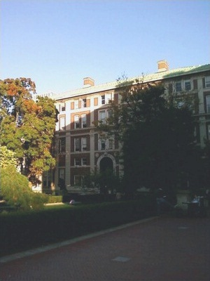 Columbia University Philosophy Building, containing the Department of Philosophy, English Department, French Department, and others.